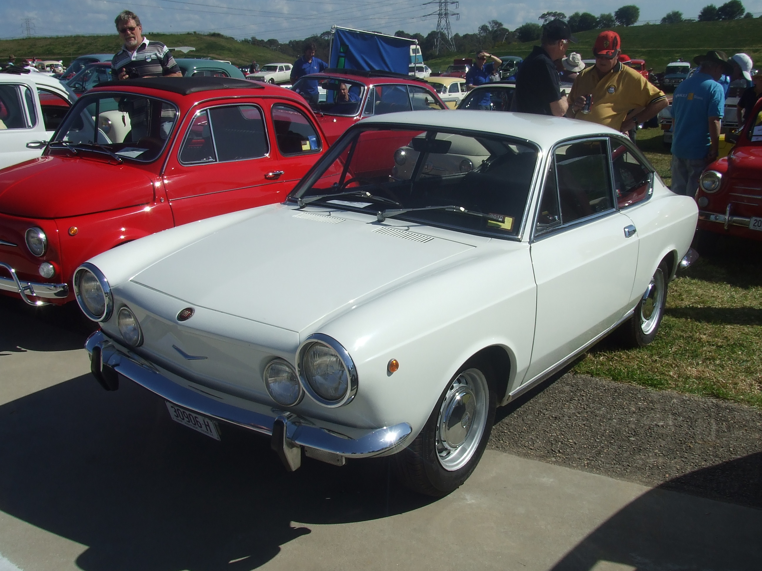 Fiat 850